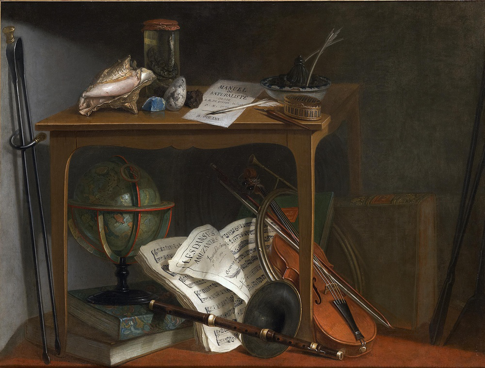 Curiosity objects on a table covered by a world map and musical instruments, by Nicolas Henri Jeaurat de Bertry, 1775 & 1777. Oil on canvas, 89.5 x 117.5 cm / 35.2 x 46.3 in.